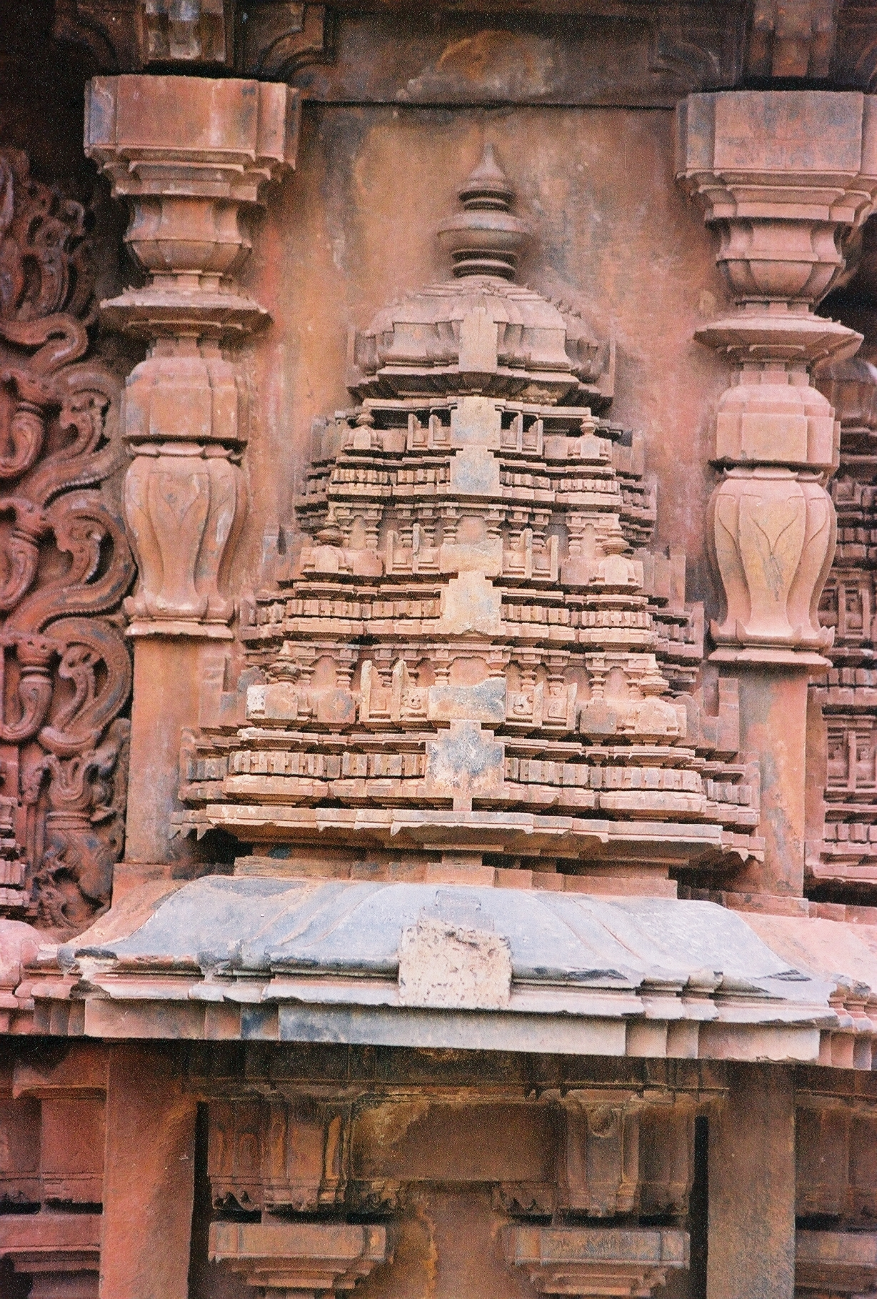 Siddhesvara Temple in Haveri town, Haveri district, Karnataka state, India